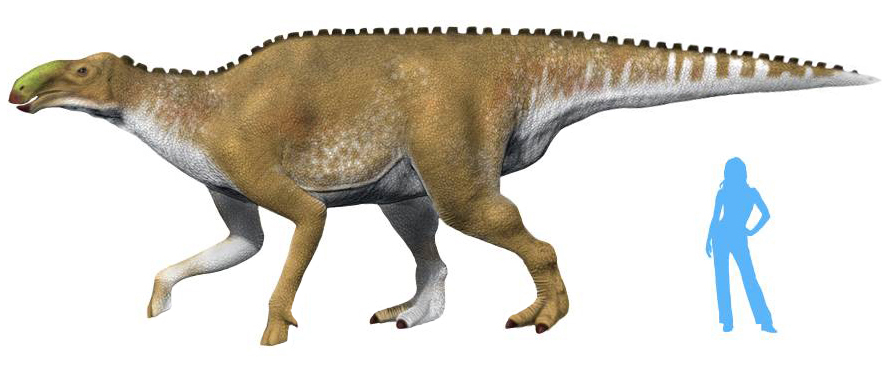 Restoration of Kamuysaurus japonicus (informally known as "Mukawaryu").